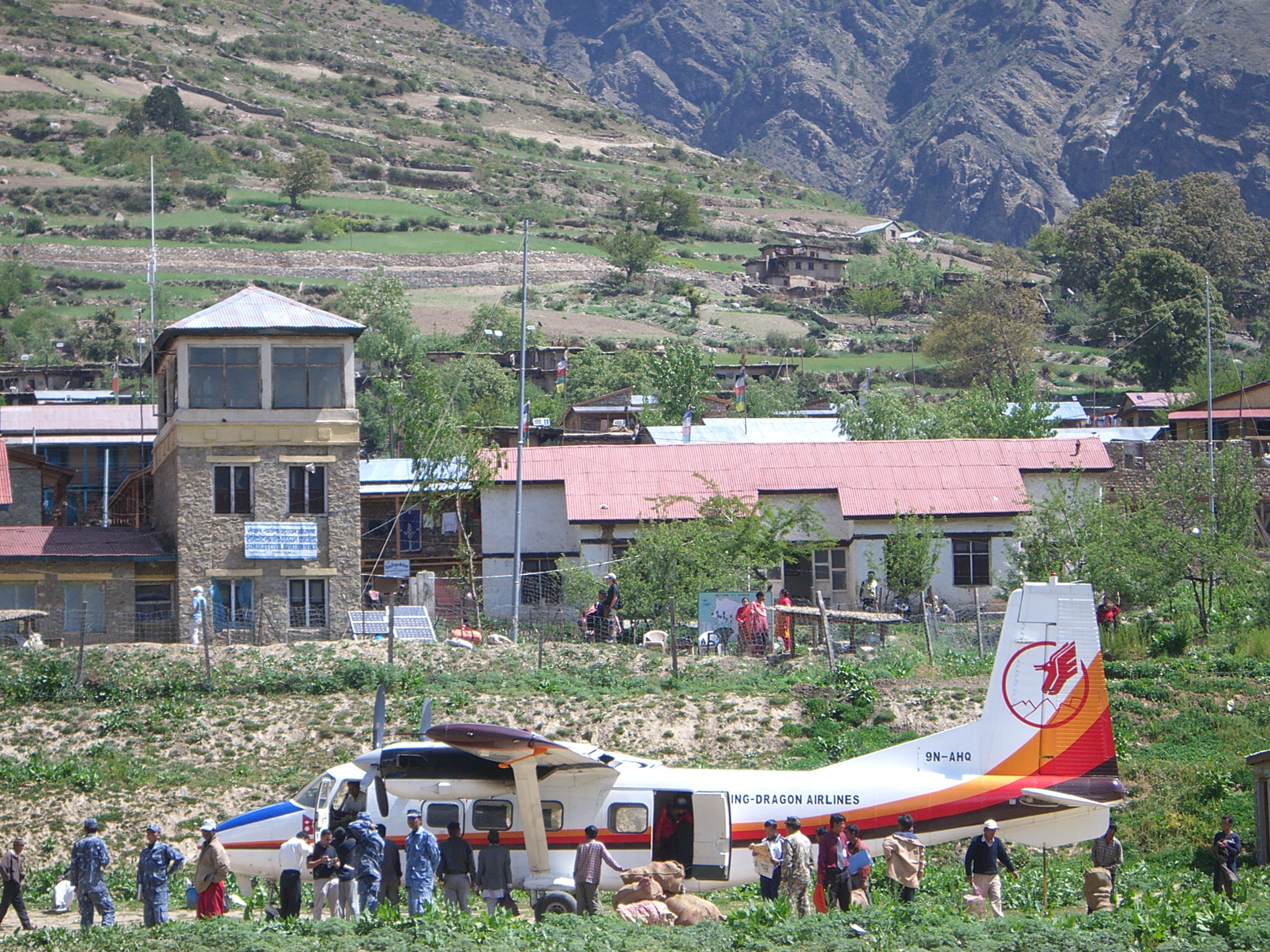 Photo of a Flying Dragon Airlines Harbin Y-12 at Simikot Airport, Nepal